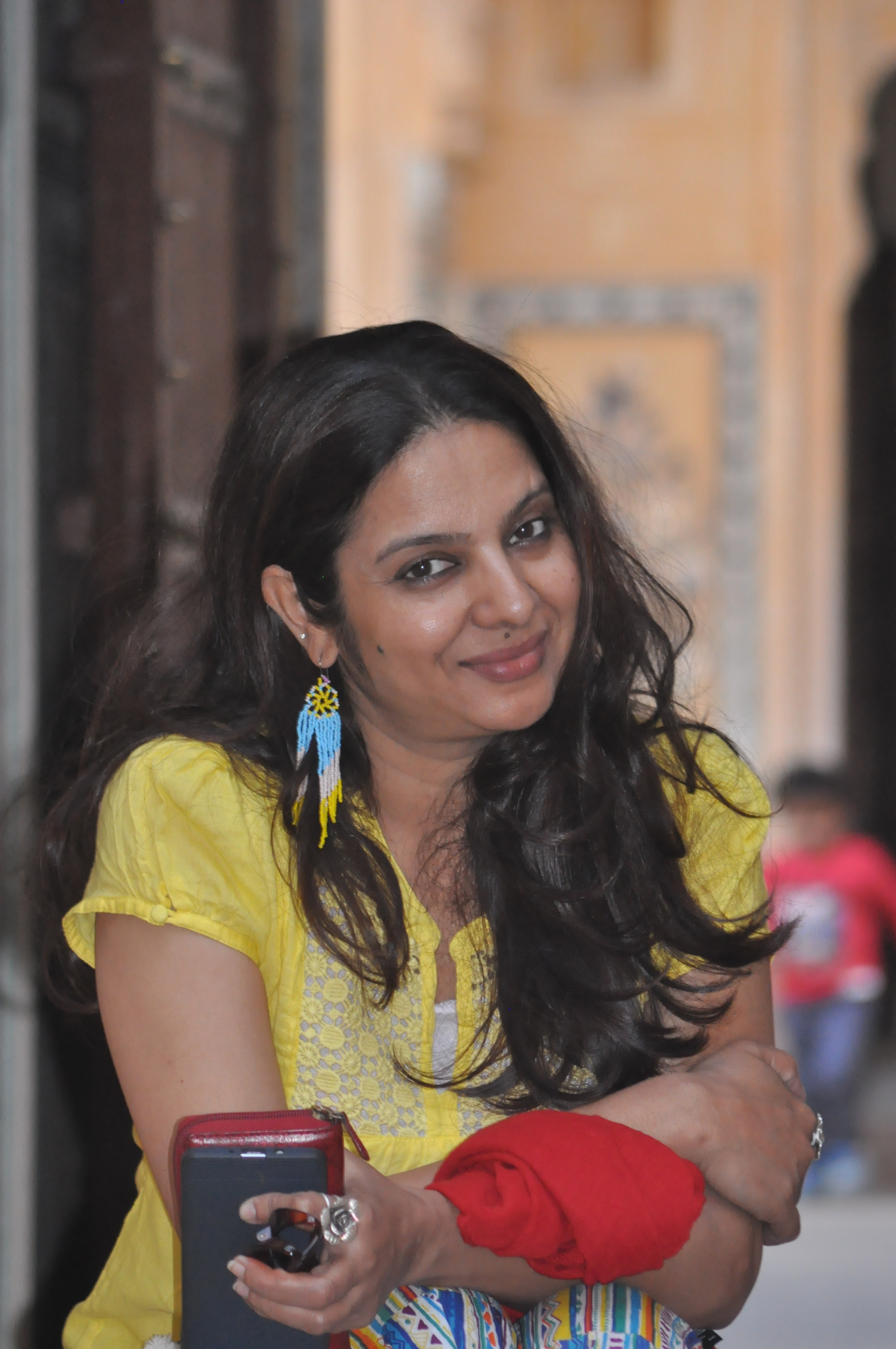 Sonal Jha at Nahargarh Fort, Jaipur November 2016